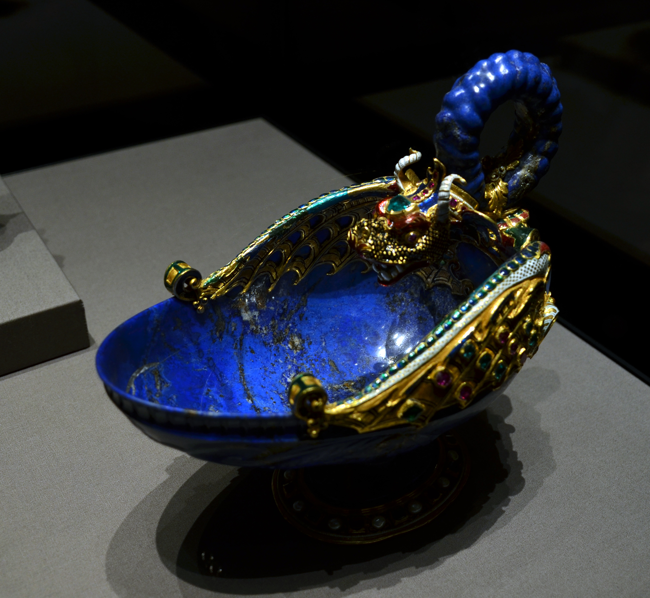 Dragon bowl by Gasparo Miseroni (ca 1518-1573), Milan, ca 1570. Lapis lazuli, gold, enamel, pearls and precious stones. Now in the Kunsthistorisches Museum in Vienna.